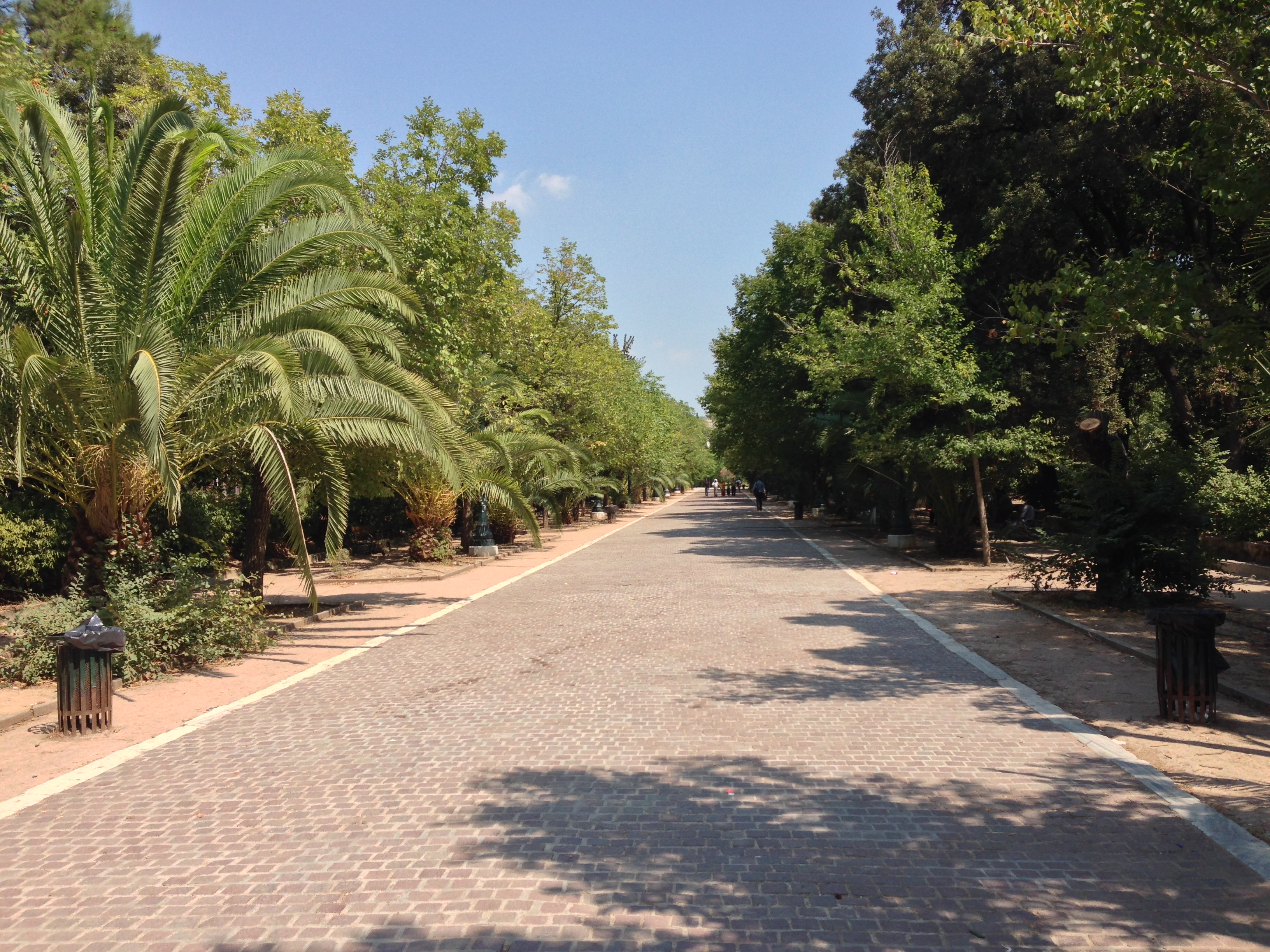 Avenue in Pedion tou Areos